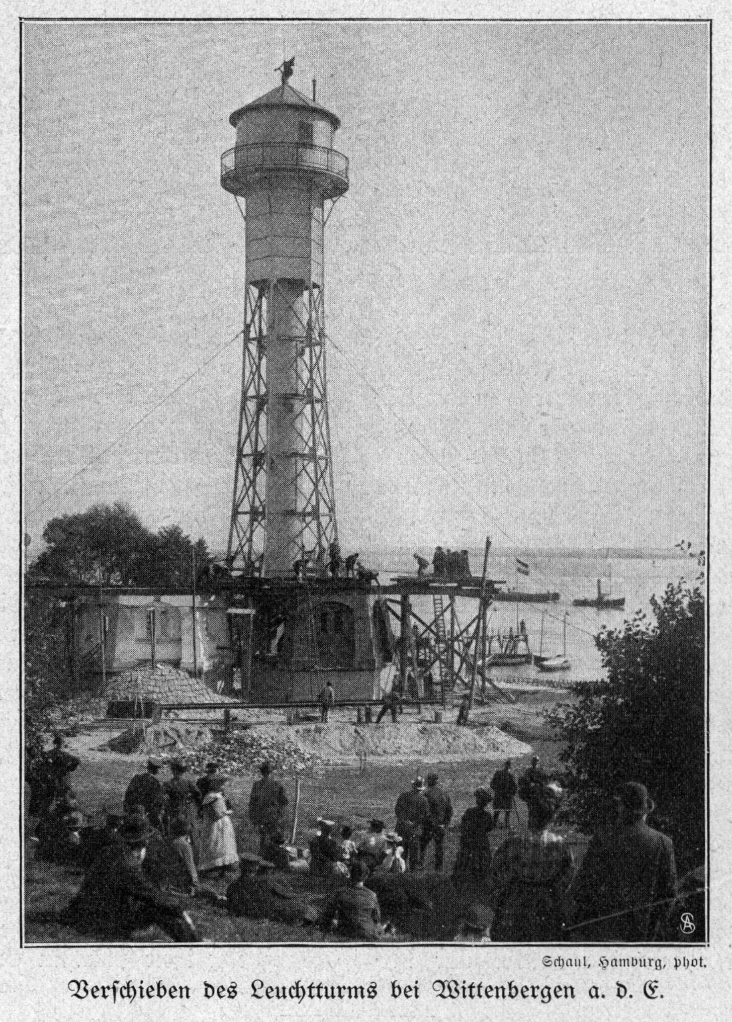 Photograph from the German Periodical Vom Fels zum Meer Vol. 24,3 (1905), p. 214, Scanned by Bibhai from the original in his possession. Copyright of the original expired.